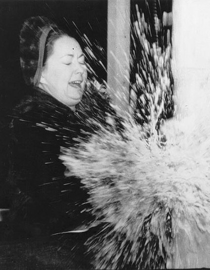 Photo #: NH 75600 USS Atlanta (CL-104) Is christened by Mrs. Margaret Mitchell Marsh, author of "Gone With the Wind", during launching ceremonies at the New York Shipbuilding Corporation shipyard, Camden, New Jersey, 6 February 1944. Courtesy of James Russell, 1972. U.S. Naval Historical Center Photograph.